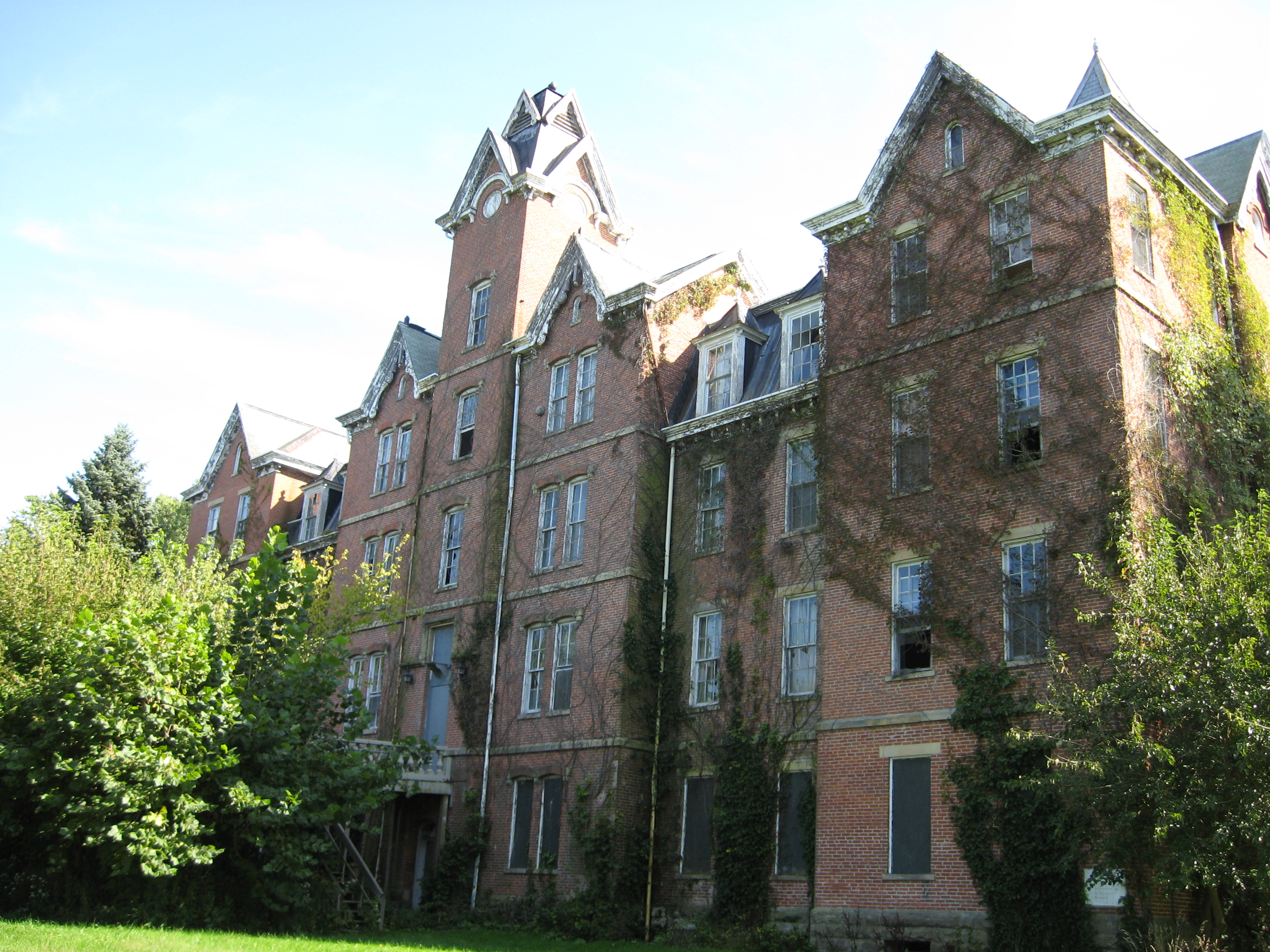 This is an immage that I took a few years ago of the Knox County Infirmary